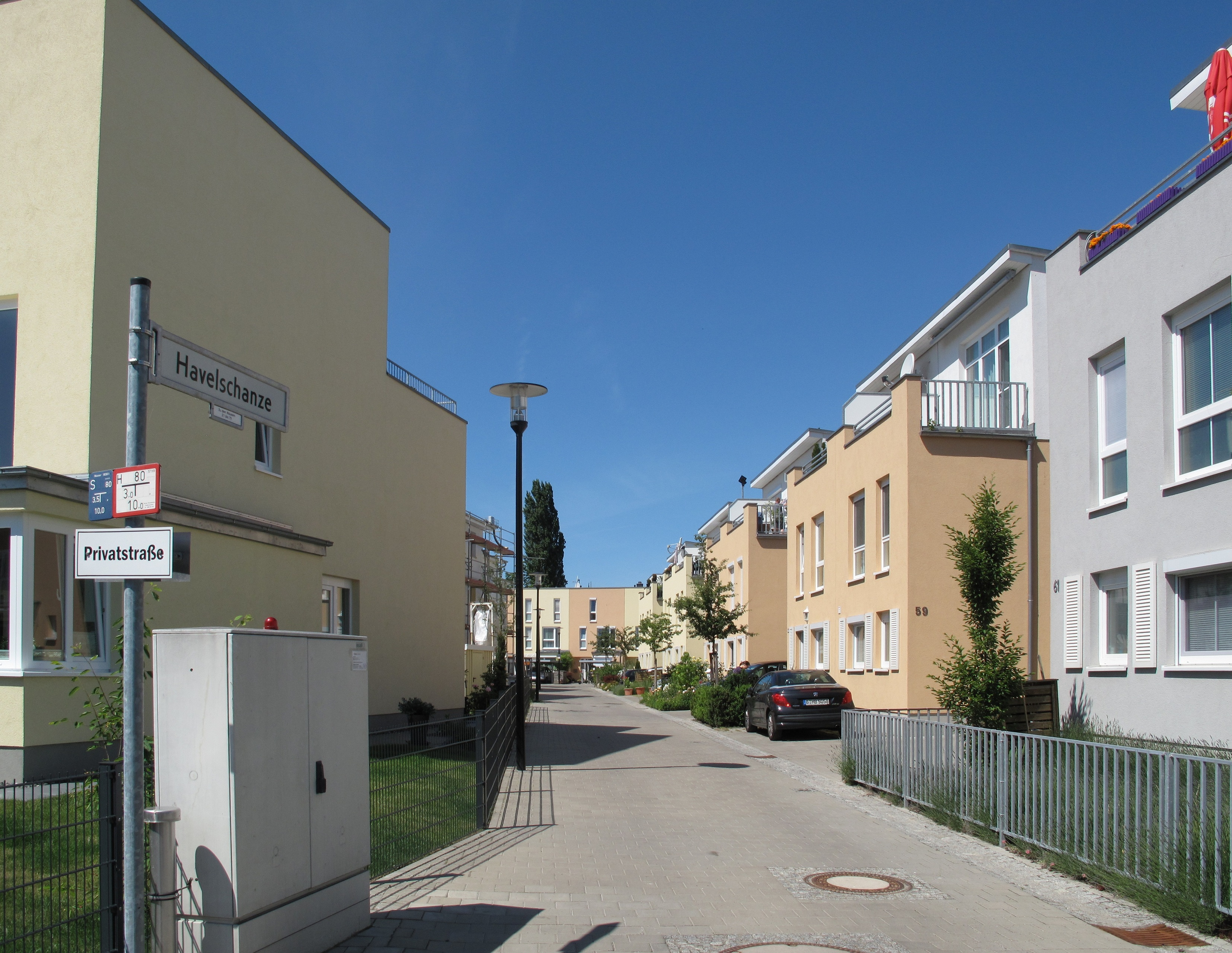 Street Havelschanze in Berlin, Borough Spandau, locality Hakenfelde. The street runs parallel to the southern bank of the Nordhafen Spandau (north harbour Spandau)